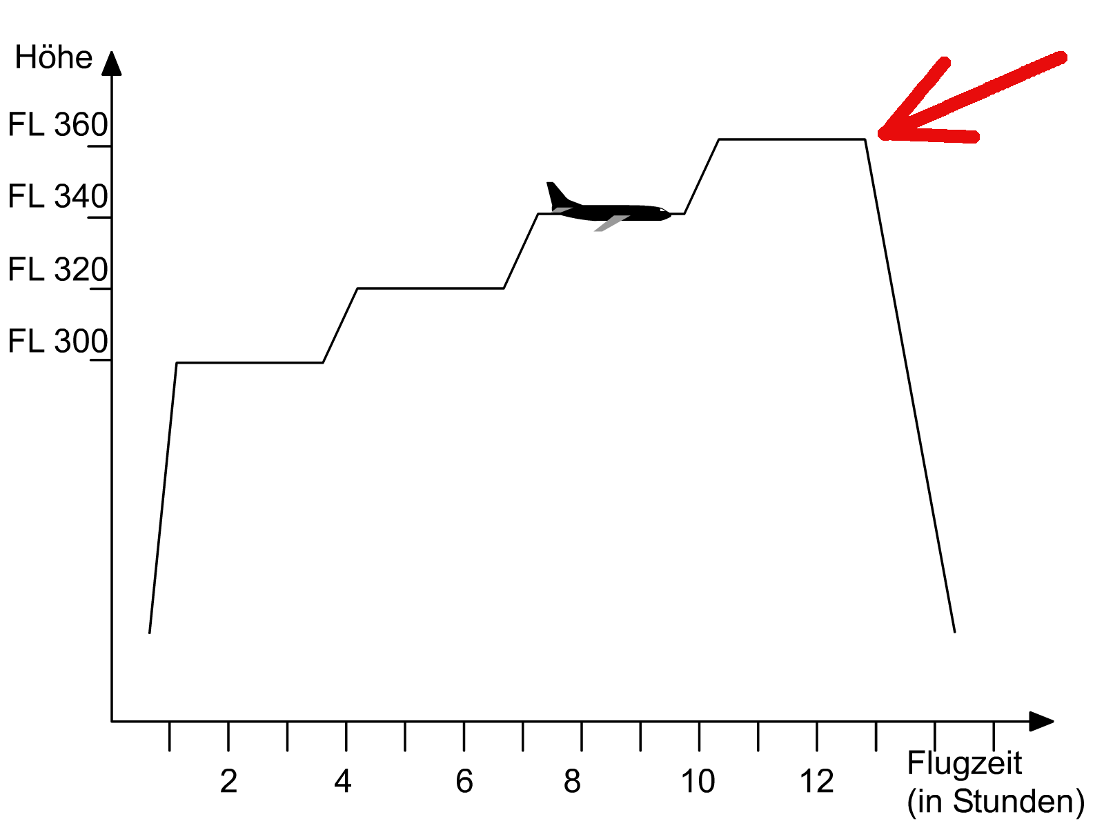 Top of Descent at the end of a step climb_TOD